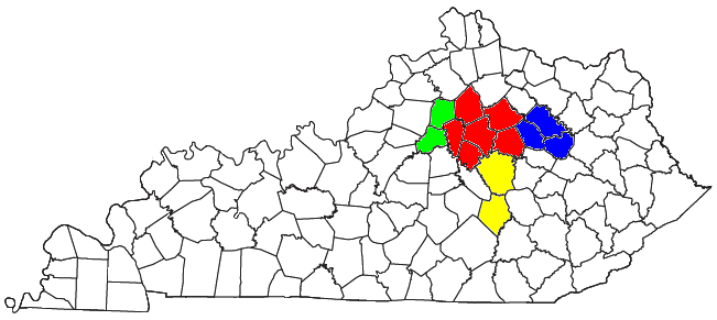 Locator map of the Lexington-Fayette-Frankfort-Richmond Combined Statistical Area in the central part of the U.S. state of Kentucky. The five components of the CSA are colored separately: Lexington-Fayette Metropolitan Statistical Area: red Richmond-Berea Micropolitan Statistical Area: yellow Frankfort Micropolitan Statistical Area: green Mount Sterling Micropolitan Statistical Area: blue